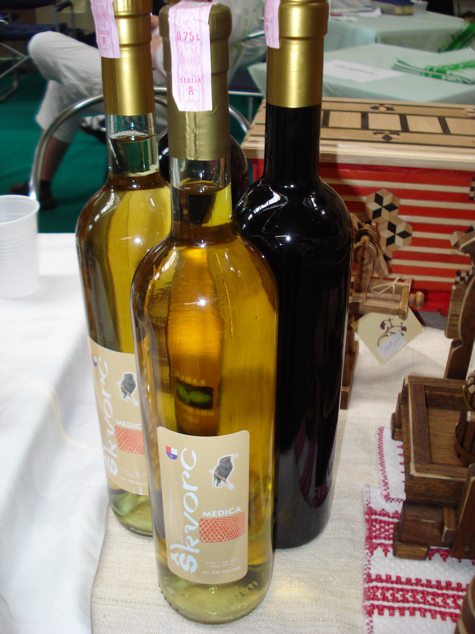 Mead (honey-wine) made in Medjimurje County, Croatia.